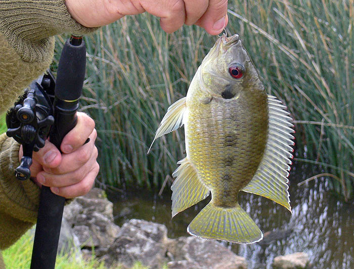 Spotted tilapia (Tilapia mariae), caught on a hook and line, in the heated outflow of a coal powerplant in southern Australia.